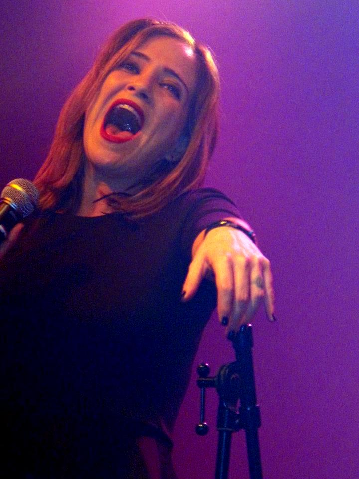 Mei Feingold